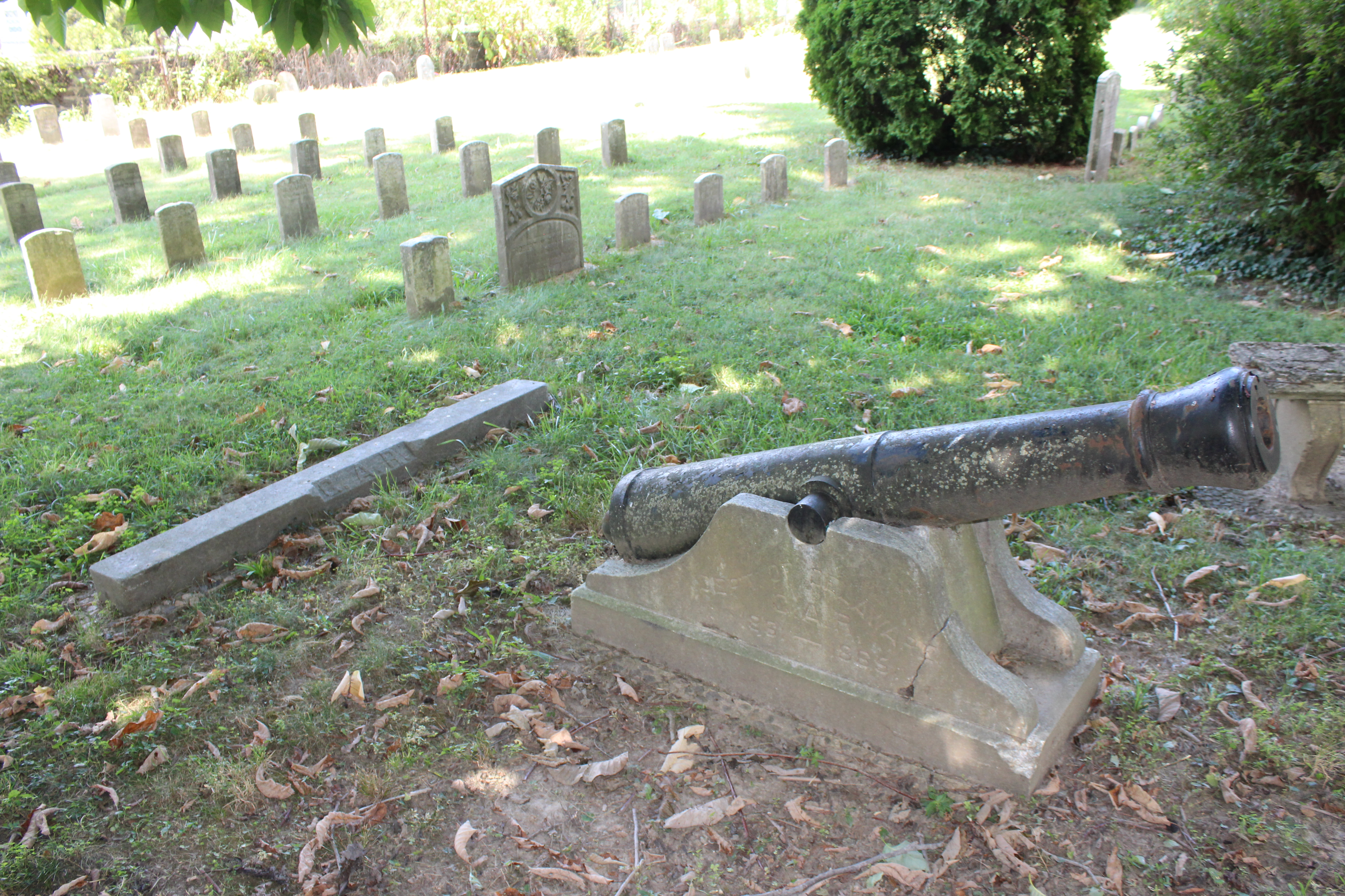 The section of Wilmington and Brandywine Cemetery named Soldier's Graveplot where 121 Civil War Soldier's who died of their wounds or illnesses were buried. Photo taken August 2019.